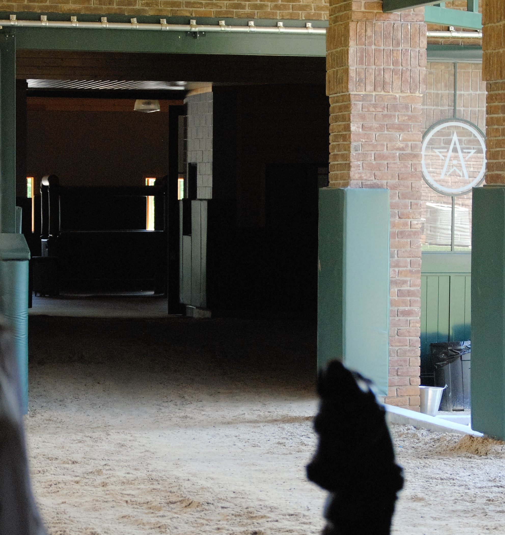 The breeding shed at Winstar Farms is adjacent to the main stallion barn